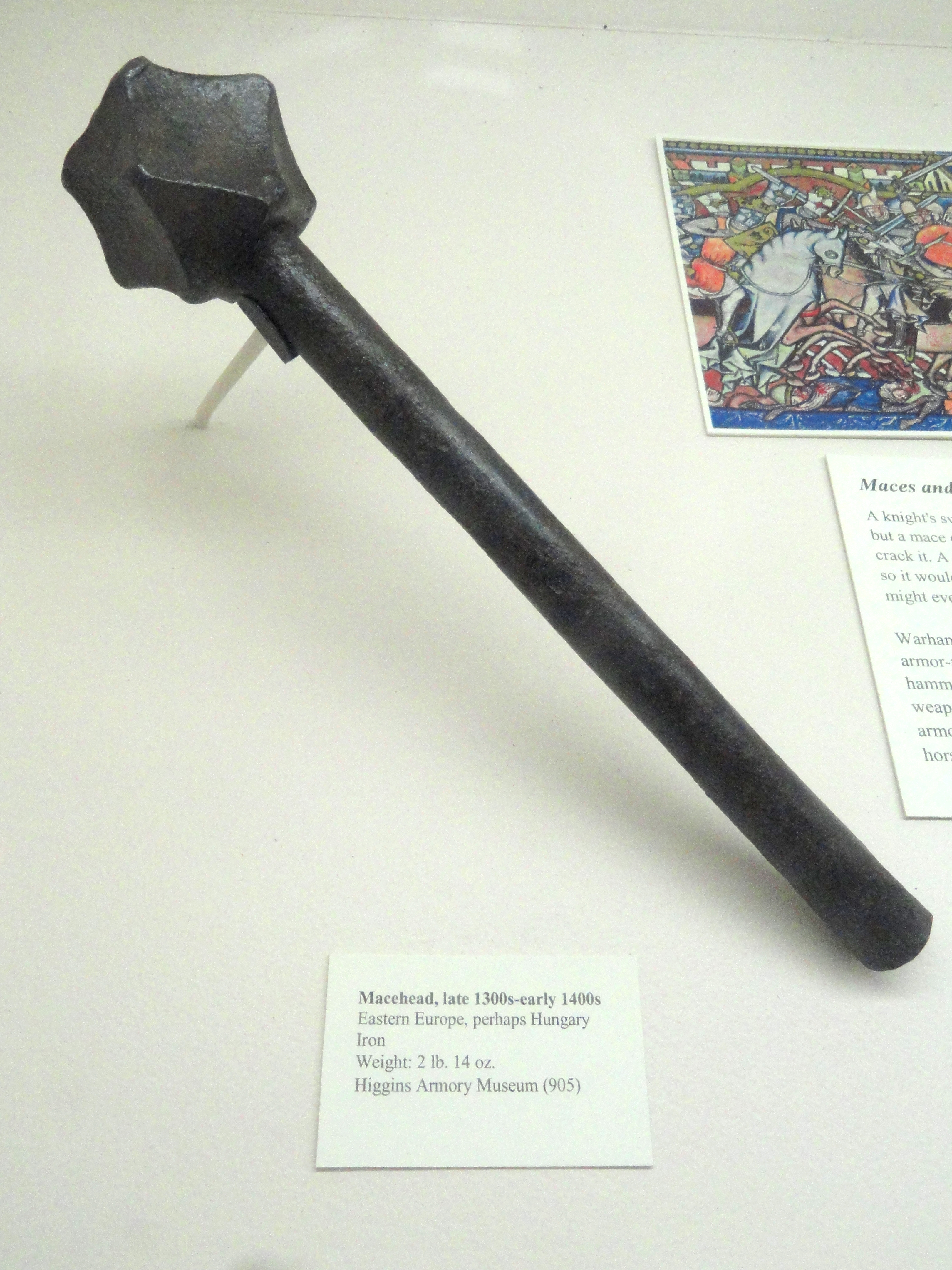 Exhibit in the Higgins Armory Museum, 100 Barber Avenue, Worcester, Massachusetts, USA. The museum permitted photography without any restriction, both in writing and when I asked verbally.